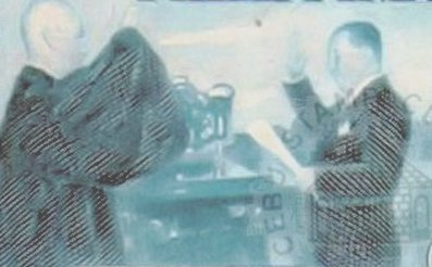 President Elpidio Quirino was inaugurated for his first full term as President of the Philippines on December 30, 1949 at the Independence Grandstand (now Quirino Grandstand), Manila. The oath of office was administered by Chief Justice Manuel Moran.